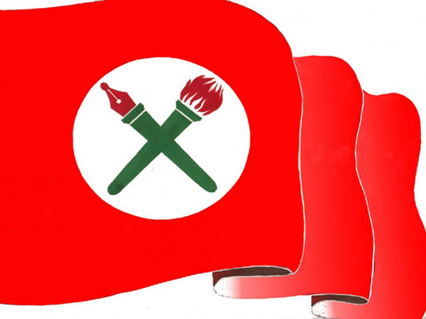 Flag of Nepal Students' Union (a sister party of Nepali Congress).